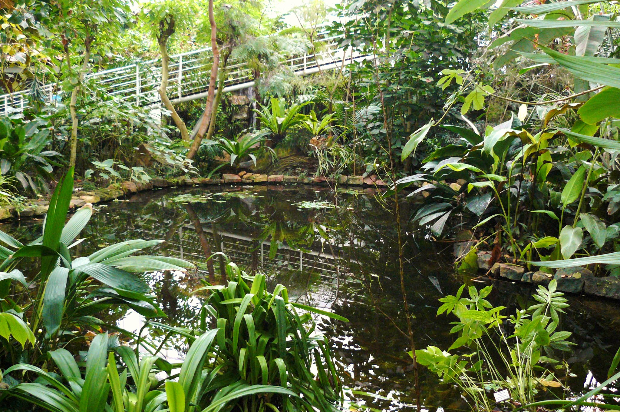 Botanical Garden Teplice, interior of Palmhouse.